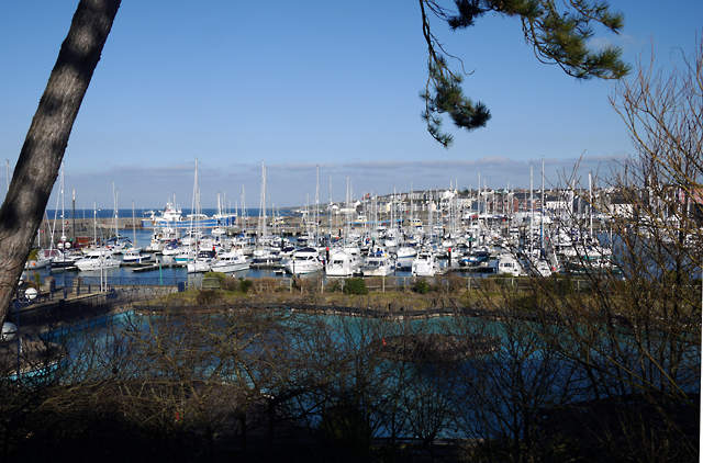 Bangor Marina. Bangor Marina (see also related images at 10863831 ) as seen from a footpath above Pickie. The water in the foreground is the boating lake at Pickie 1239436.